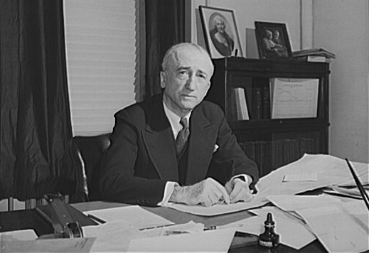 James F. Byrnes, former associate justice of the Supreme Court of the United States, Governor and Senator from South Carolina, and Secretary of State.